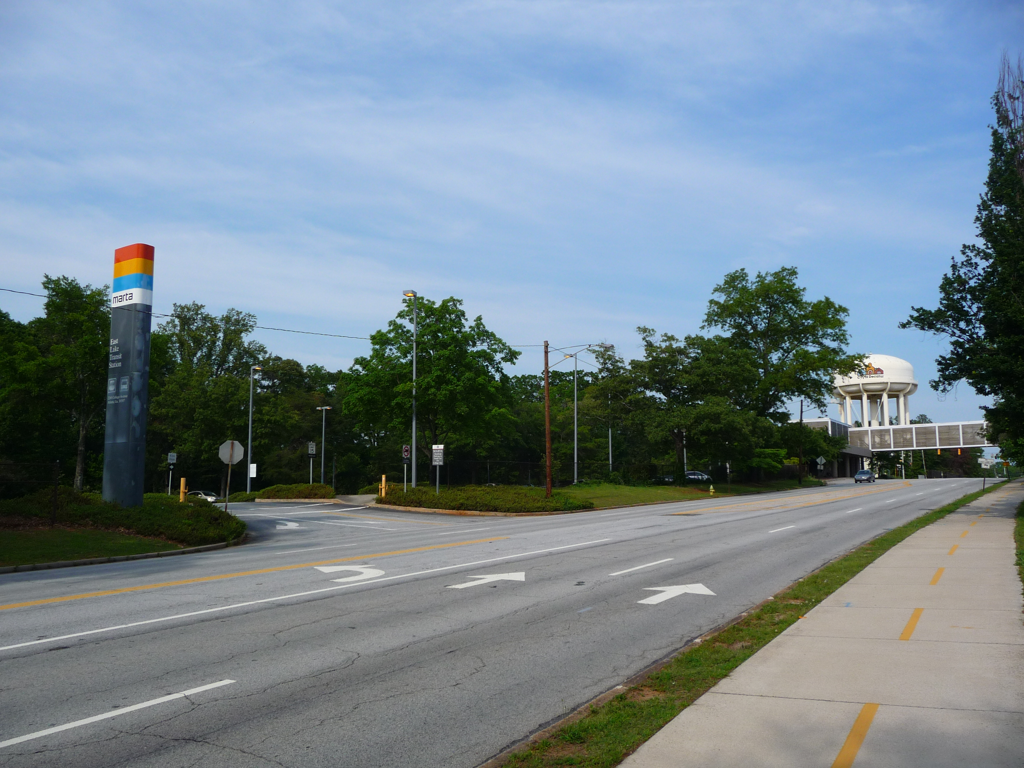 East Lake Transit Center (MARTA)